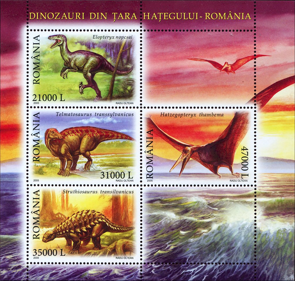 Dinosaurs